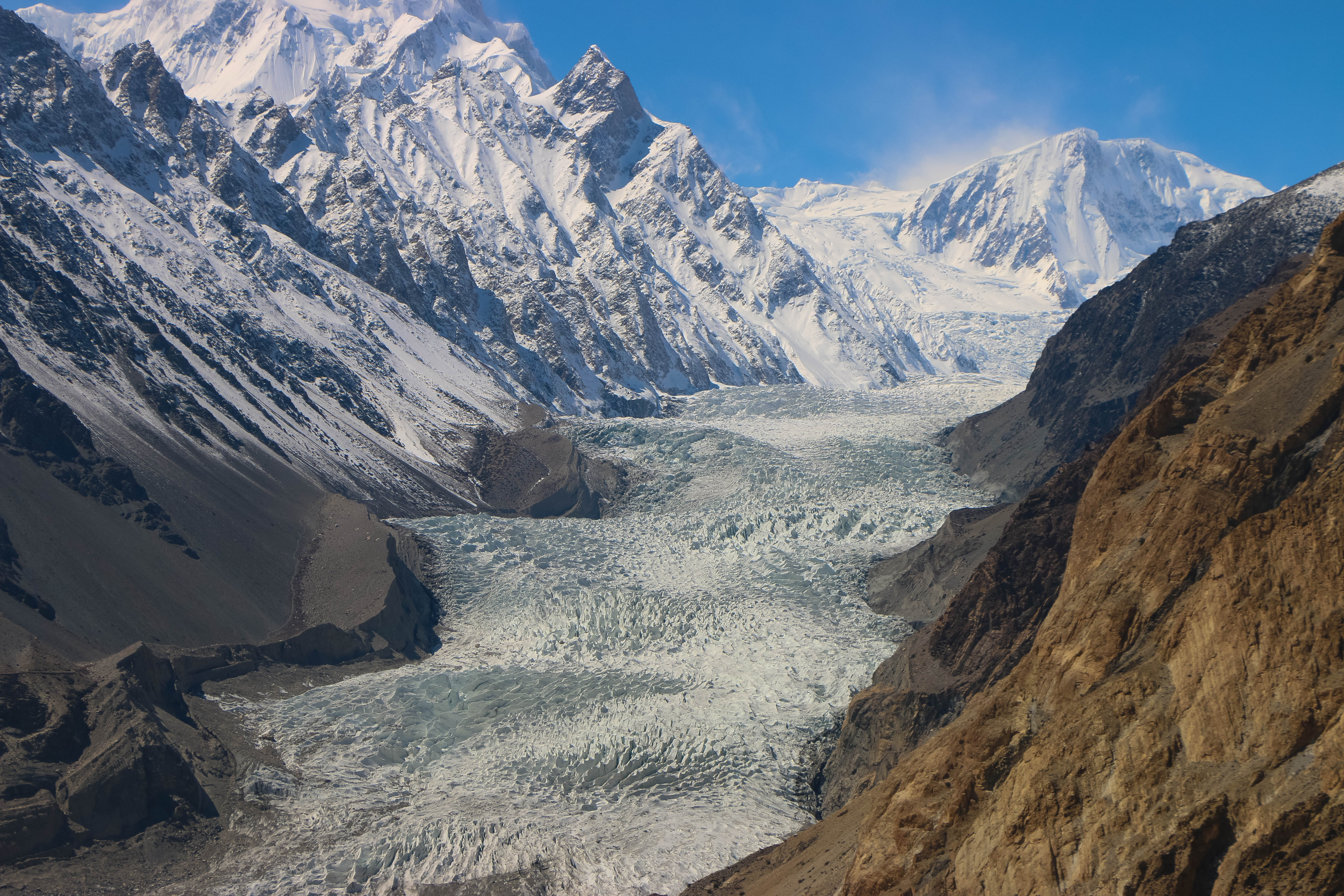 Magnificent Passu Glacier, flowing below Passu Sar